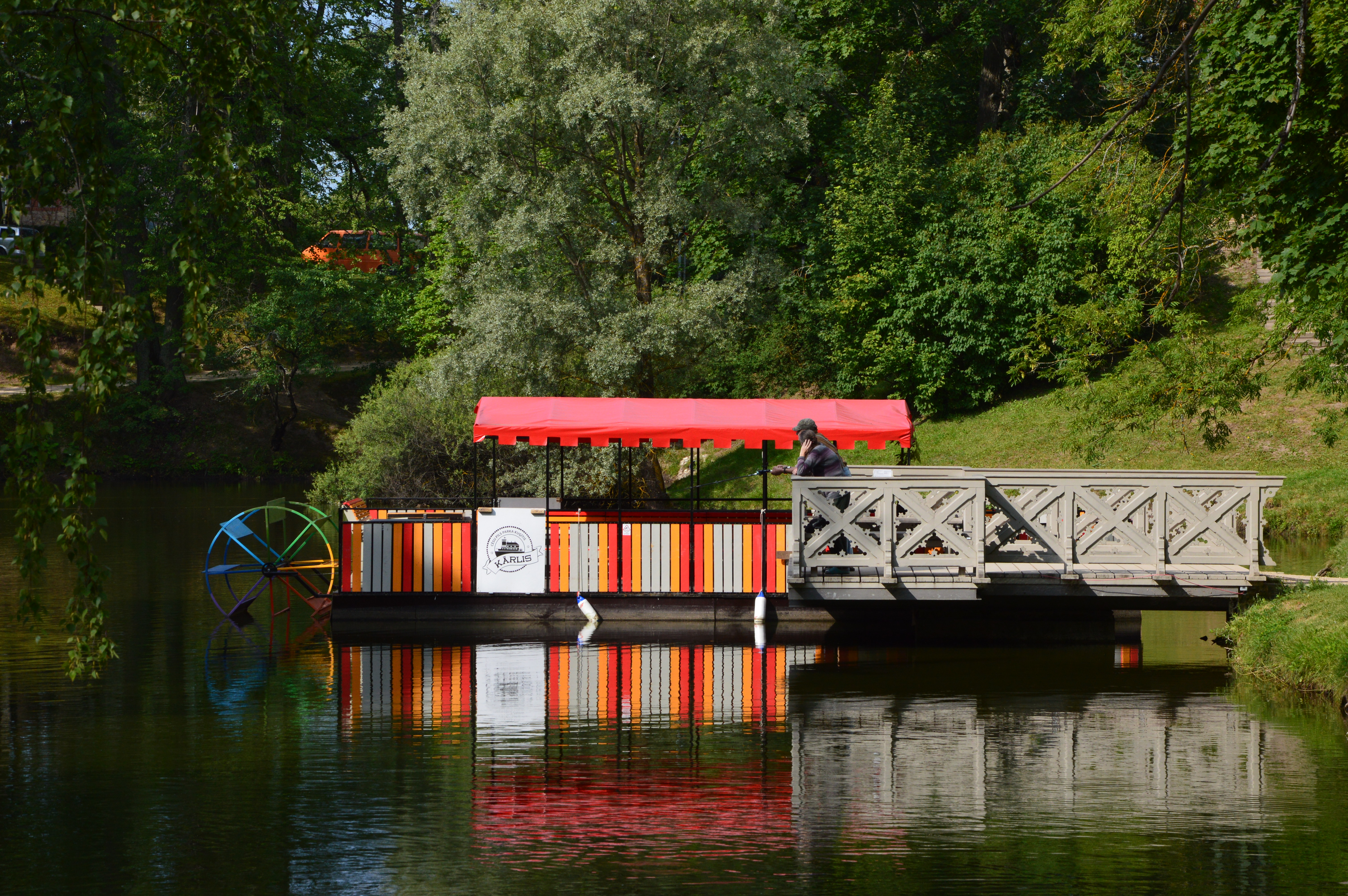 Castle park in Cēsis, Latvia.